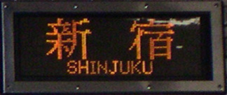 For Shinjuku, Toei Shinjuku Line Train, at Sasazuka Station, Keiō Line